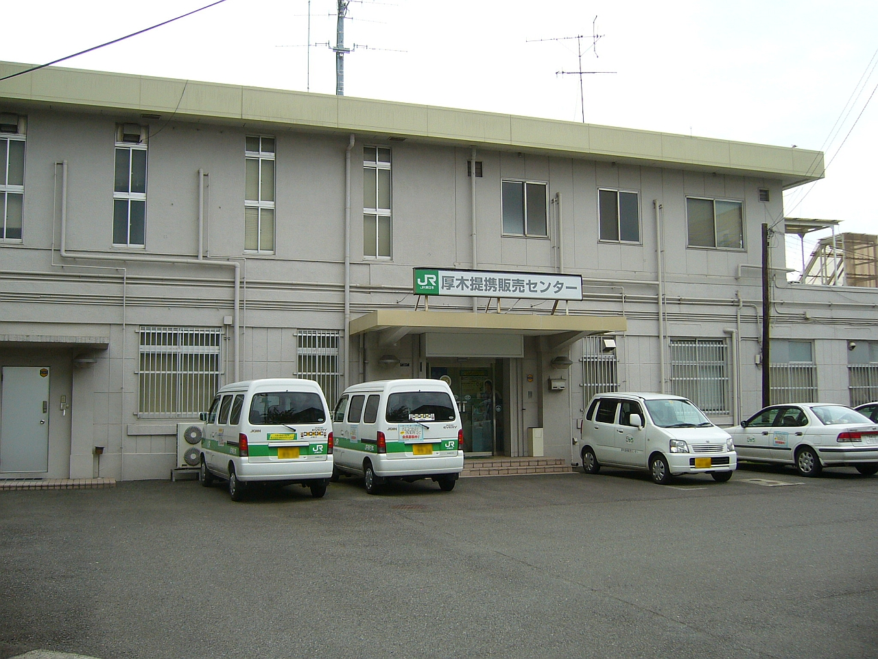 JR East Atsugi cooperation sales center. The main building of Atsugi station of JR Sagami line. (The Former Sagami Railway Atsugi station building.)